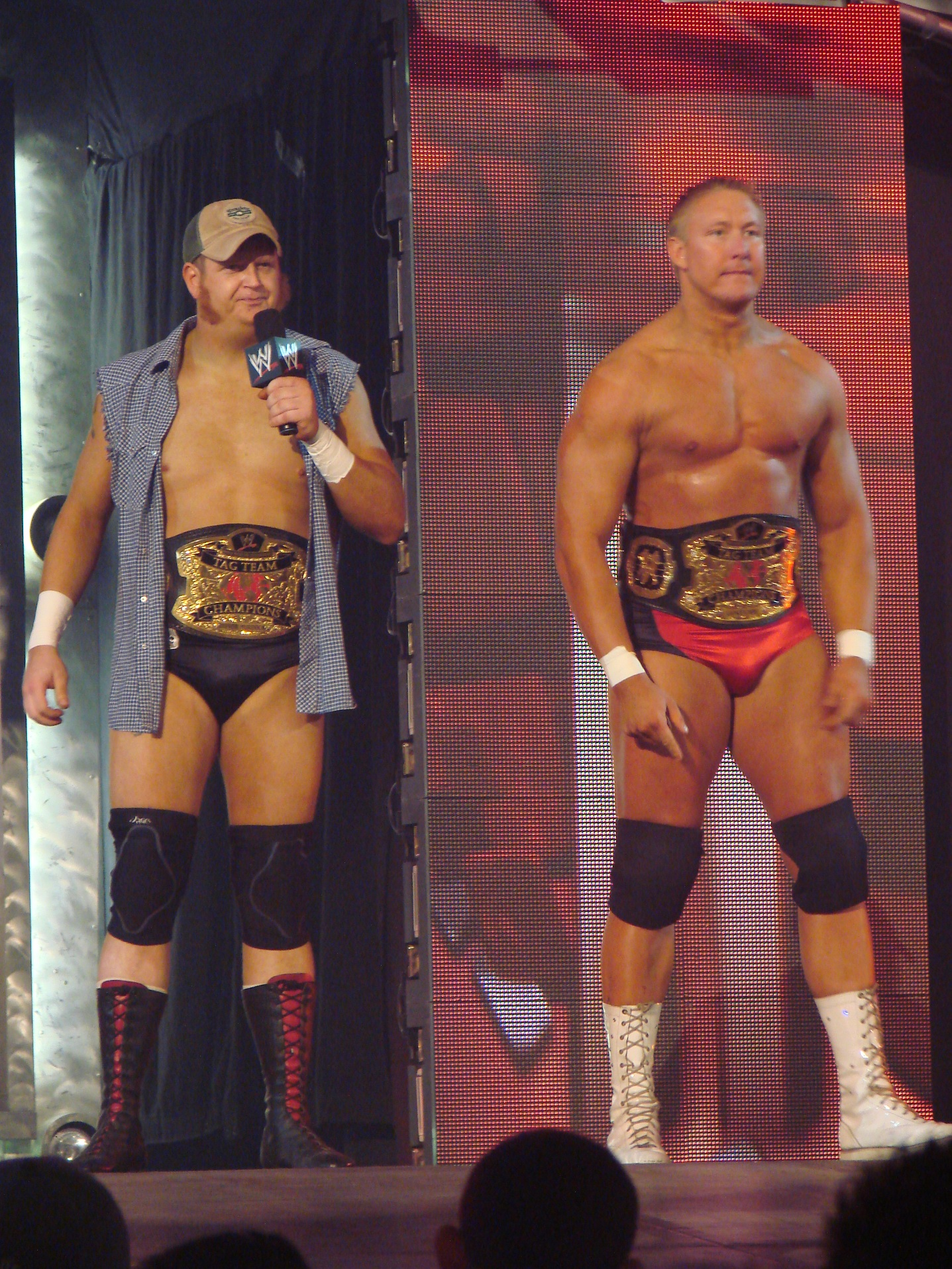 Lance Cade and Trevor Murdoch at WWE No Mercy 2007. Allstate Arena, Rosemont, IL, October 7, 2007. Taken by me, rotated and cropped.